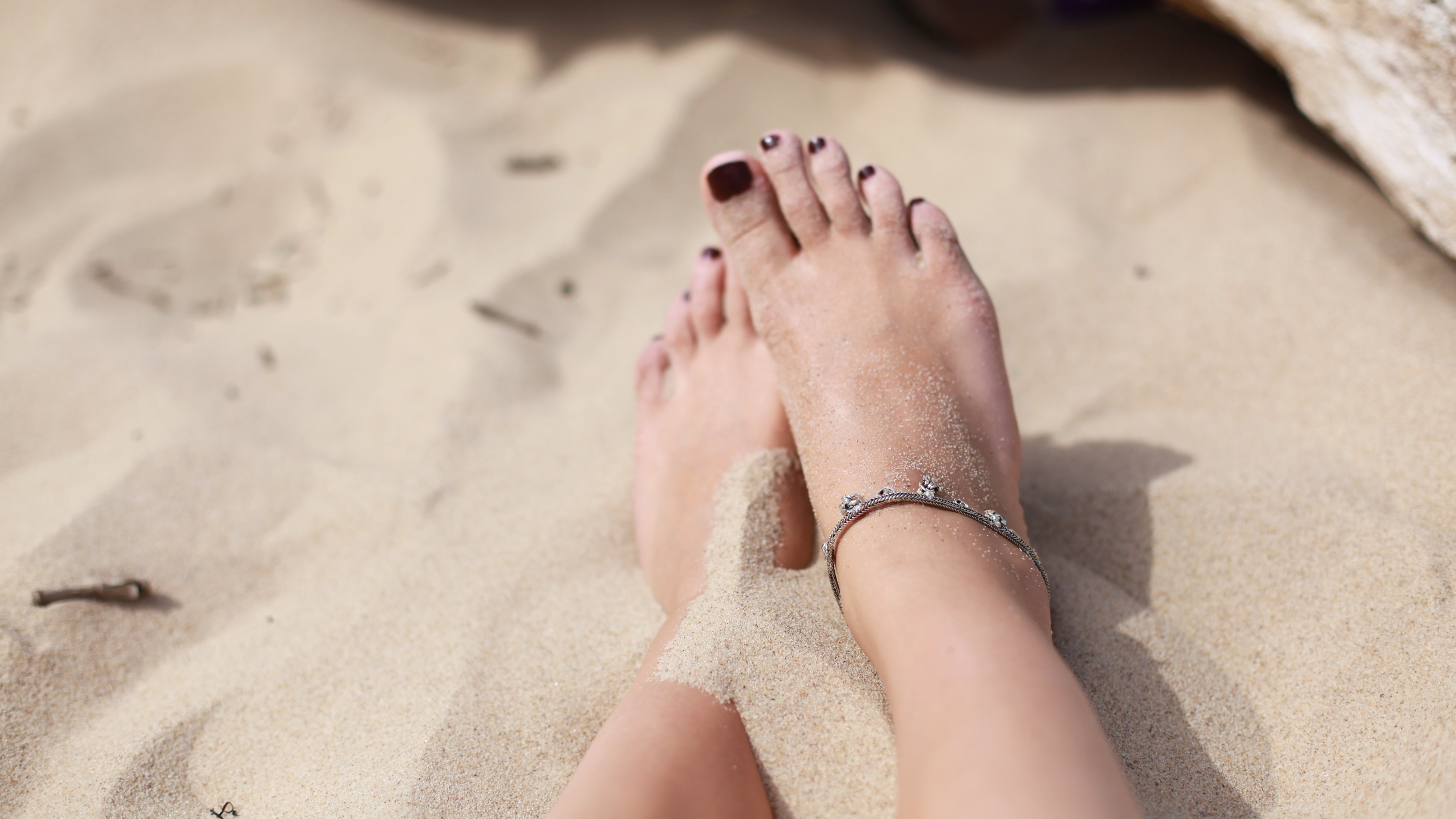 Anklet